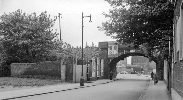 Site of Battersea Station (West London Extension Railway), near to Battersea, Wandsworth, Great Britain. View southward on Battersea High Street. The station, on this important line connecting Willesden Junction, Kensington (Olympia), Clapham Junction and Longhedge Junction, had been on the left; it was closed in World War Two on 21/10/40.